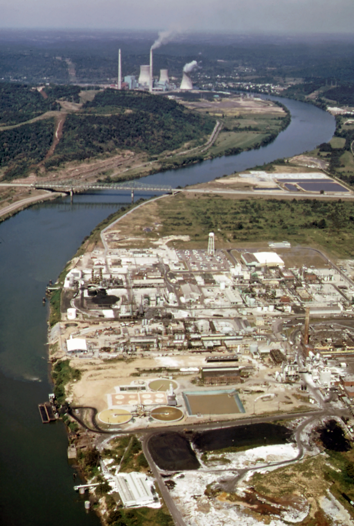 MONSANTO CHEMICAL COMPANY AT NITRO ON THE KANAWHA RIVER INTERSTATE 64 CROSSES THE RIVER JUST BELOW THE PLANT. IN THE DISTANCE ARE THE CHIMNEYS AND COOLING TOWERS OF THE JOHN AMOS POWER PLANT